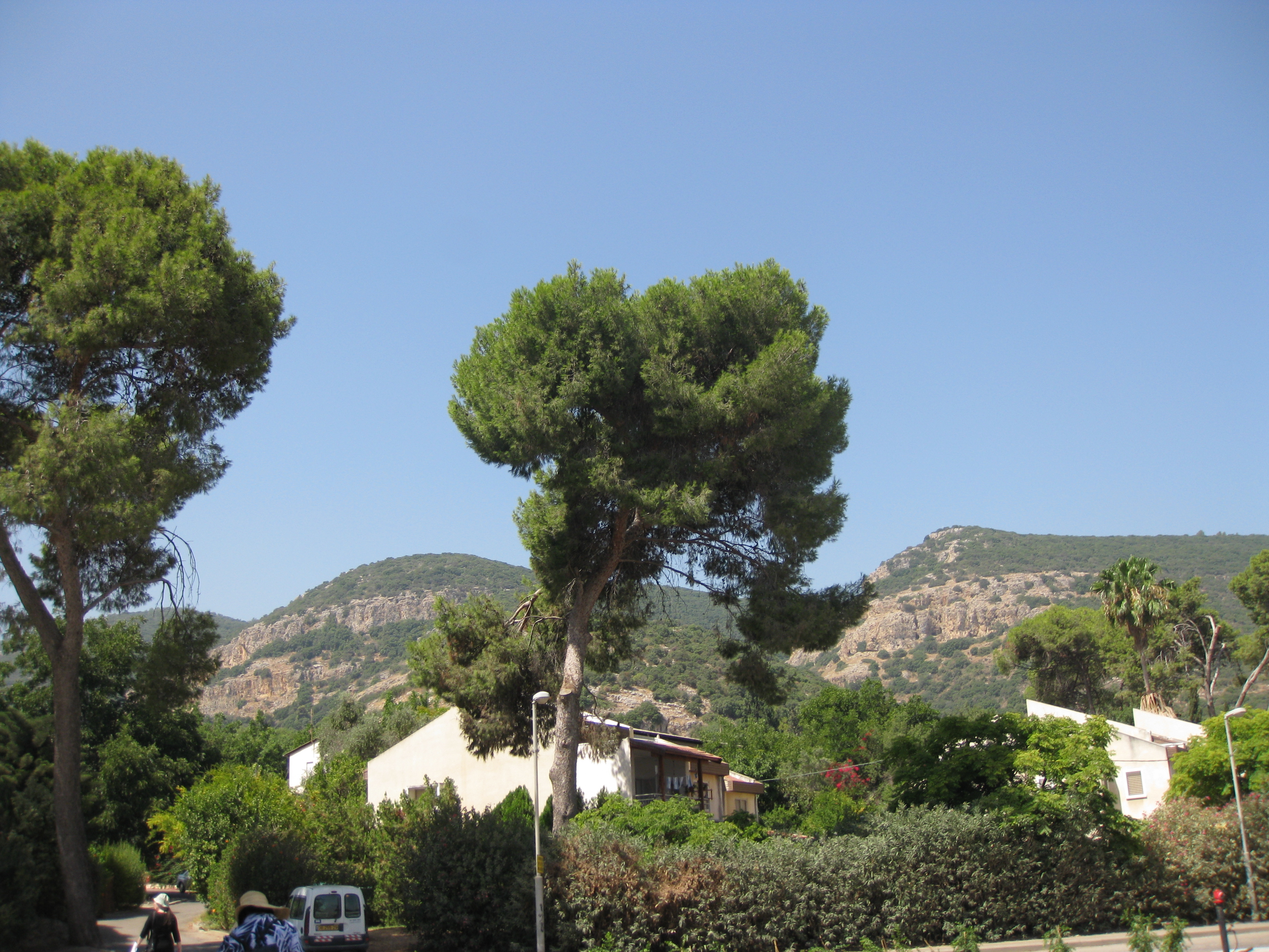 Kibutz Yagur